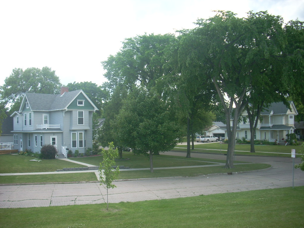 Lewis Blvd and Fenton Ave in the Grand Forks Riverside Neighborhood Historic District in Grand Forks, North Dakota. Listed on the National Register of Historic Places. Lewis Blvd is paved with the R.S. Blome company's granitoid pavement, which is also listed separately on the Register.